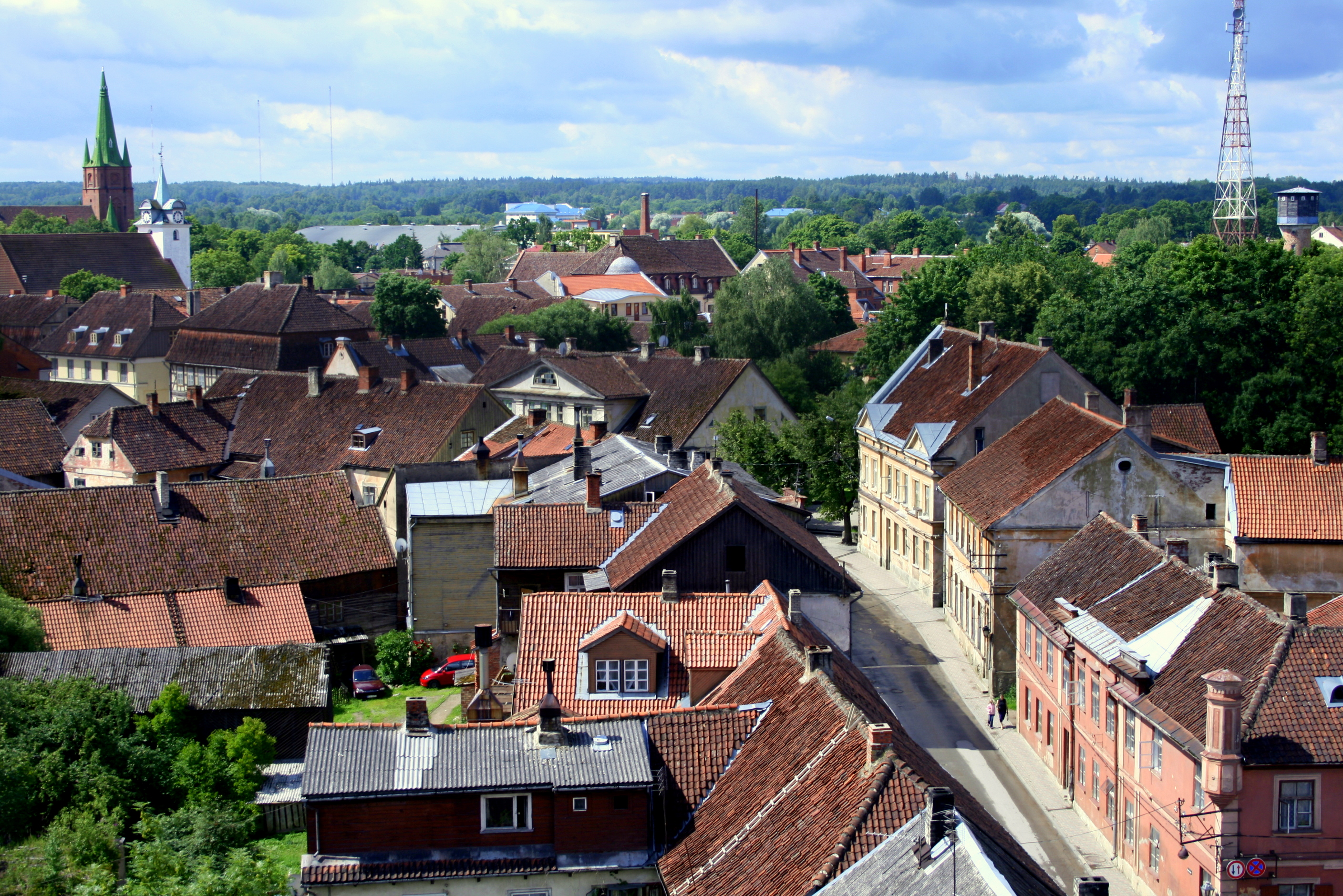 Wiew to Kuldiga from St. Catherin evangelic lutheran church's tower